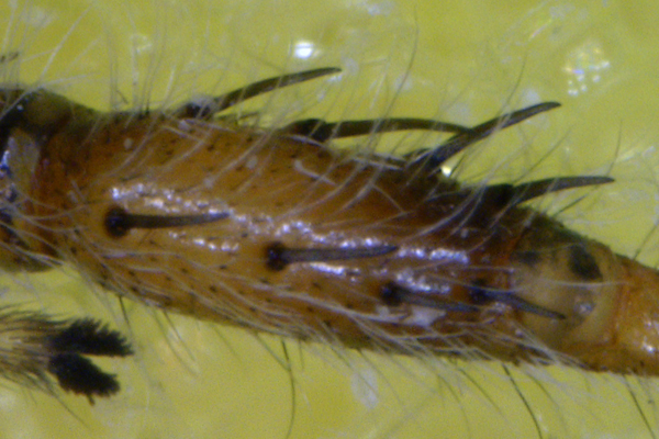 Tibia I of adult female Pike Slender Jumper (Marpissa pikei)